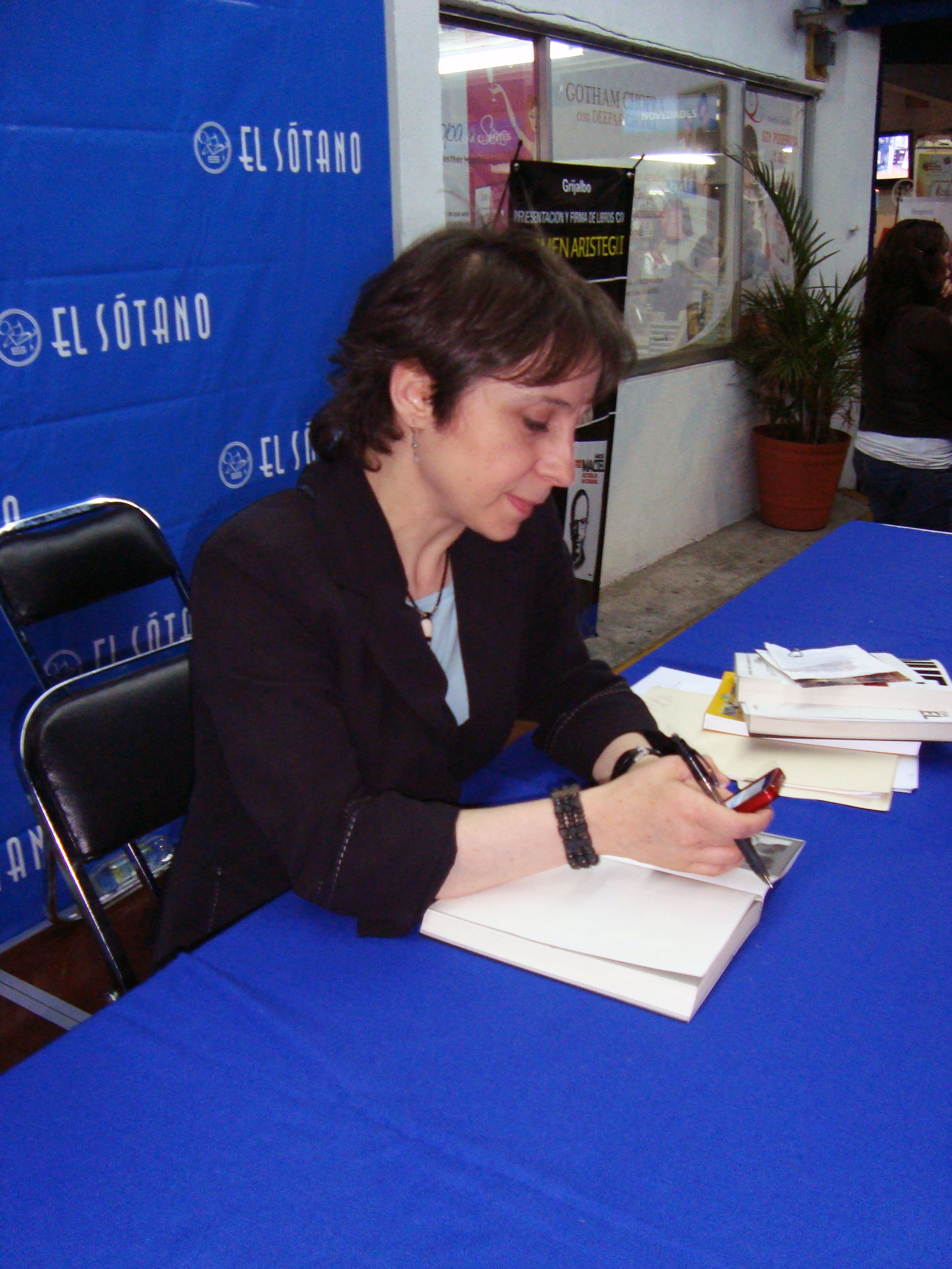 Mexican journalist Carmen Aristegui at a Library in Coyoacán, Mexico City.